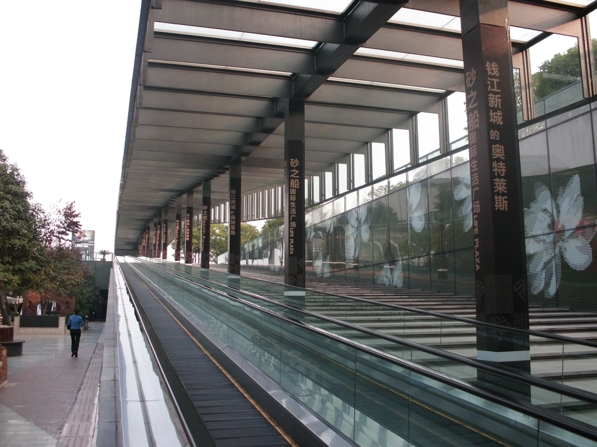 sasseur life plaza